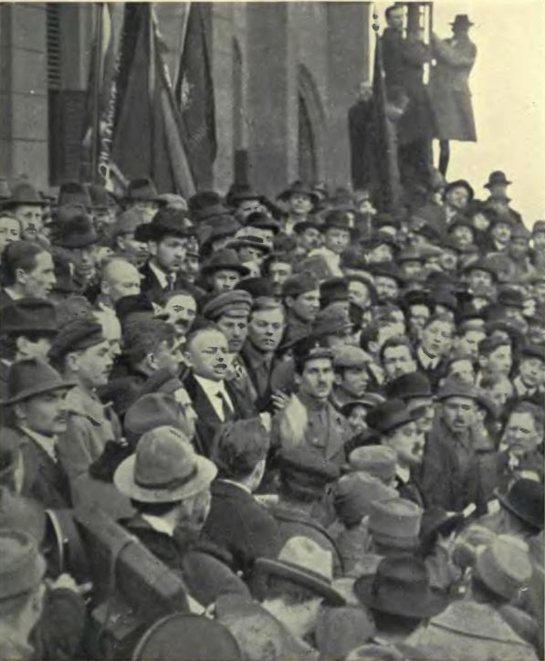 Béla Kun proclaiming the soviet republic on entrance of the Parliament, Budapest